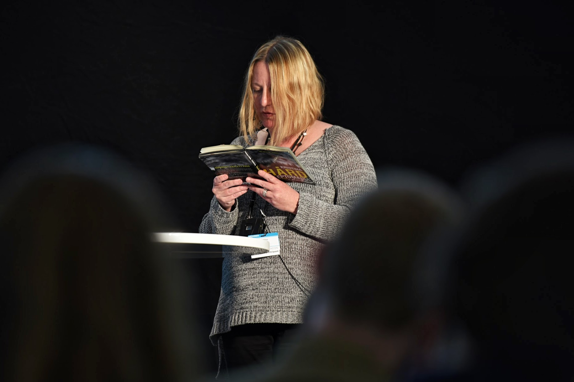 Swedish writer Kristina Hård reading at Archipelacon.